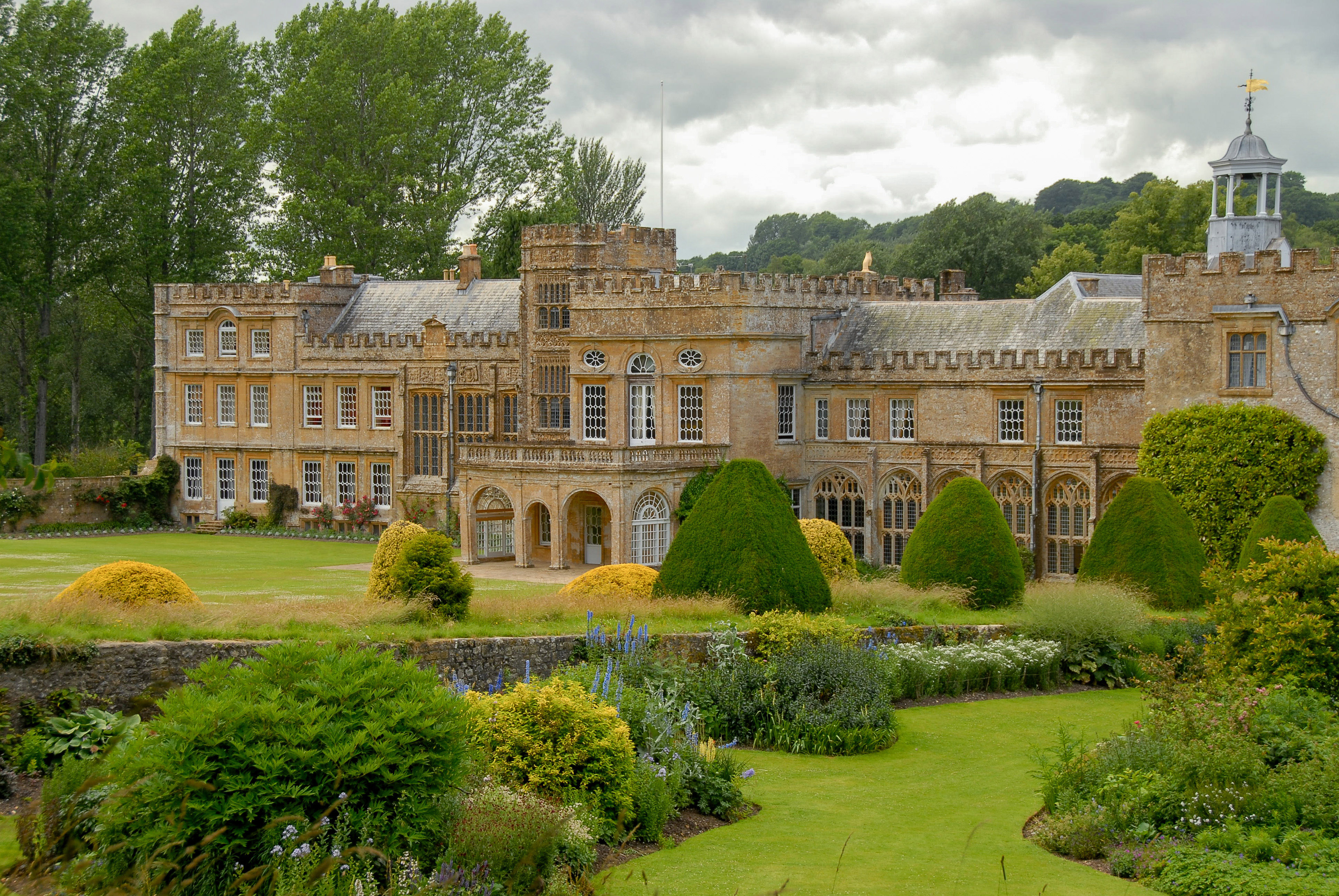 FORDE ABBEY Wikidata has entry Q689615 with data related to this building.